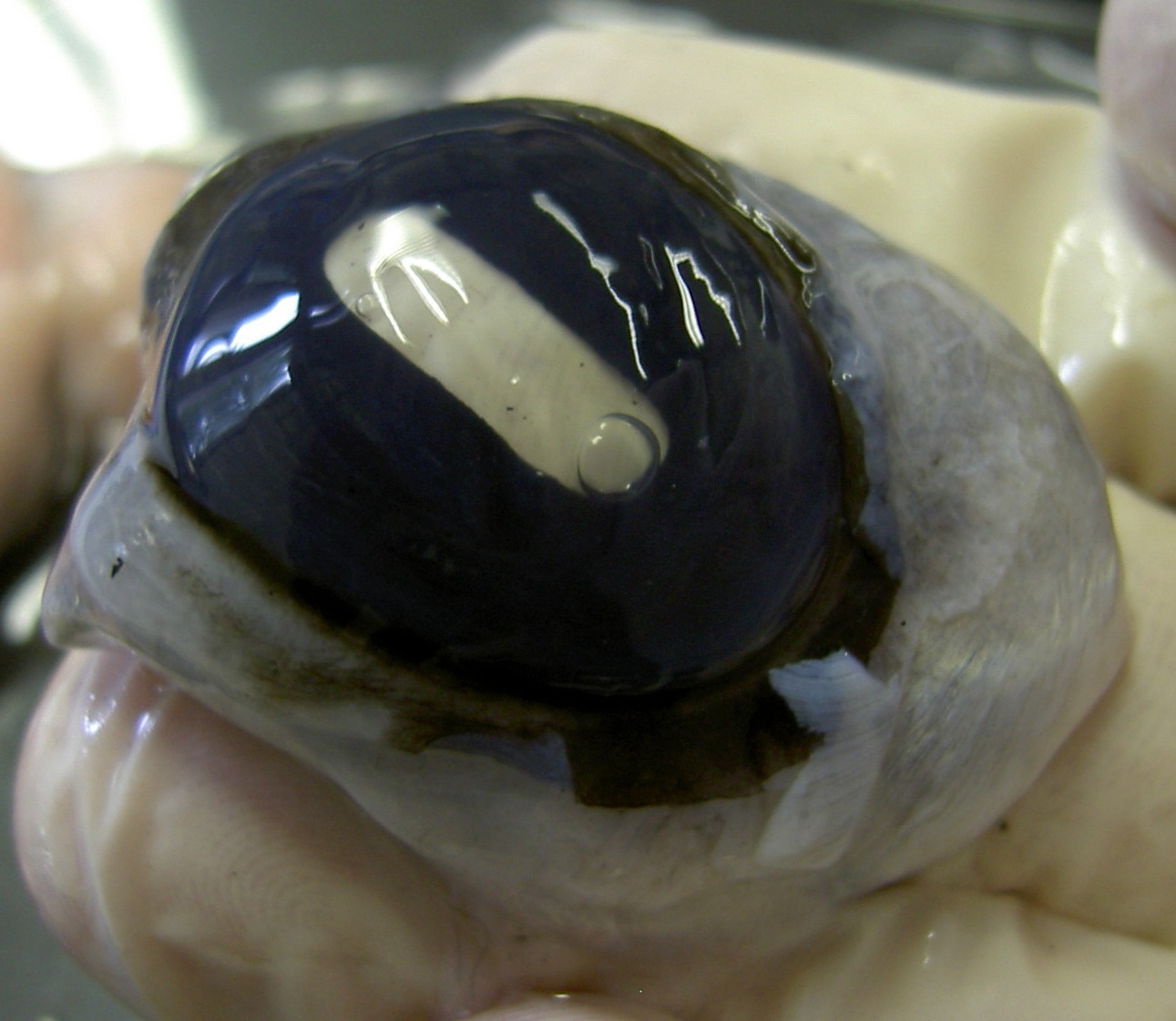 Calf eyeball from a dissection done at University of Pennsylvania on 2005 Oct 13. In this photo, the anterior of the eye has been separated and the lens removed; the cornea and iris remain. (Note the cow's rectangular pupil - now with glove visible through it.) Permission is granted by Mark Fickett (the photographer and student/dissector) to use, modify, and distribute this image so long as attribution to him is maintained. (Notification upon use is requested but not required.)